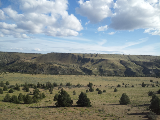 Warm Springs Reservation, Oregon (2013)